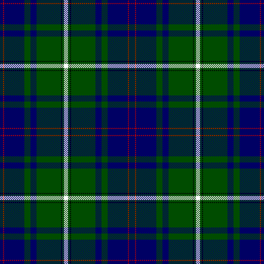 MacNeil tartan, as published in the Vestiarium Scoticum. Modern thread count: B12 R2 B40 G12 B12 G48 Bk2 G4W8.